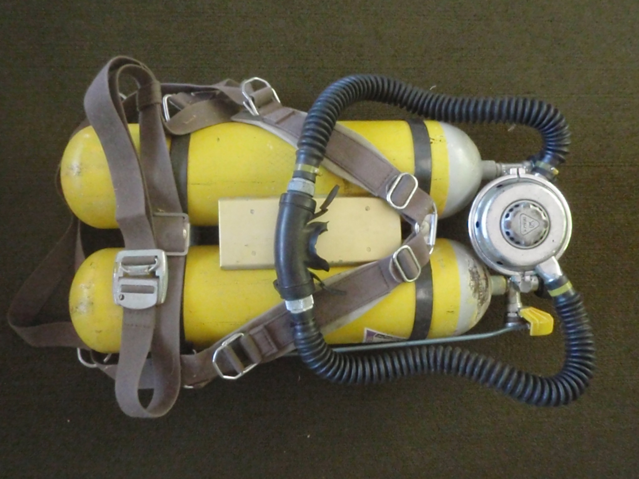 Twin cylinder set of IWKA 200 bar 7l cylinders, Daeger harness cylinder valves with reserve and manifold, and Draeger two stage twin hose demand valve